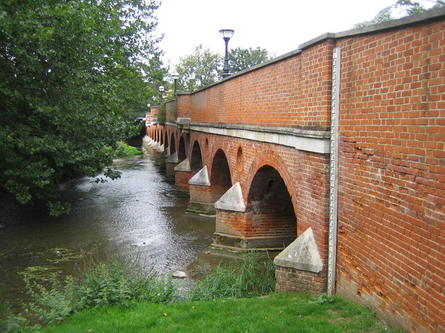 Leatherhead Bridge. This 14 arch bridge, which dates from medieval times, carries Guildford Road over the River Mole.